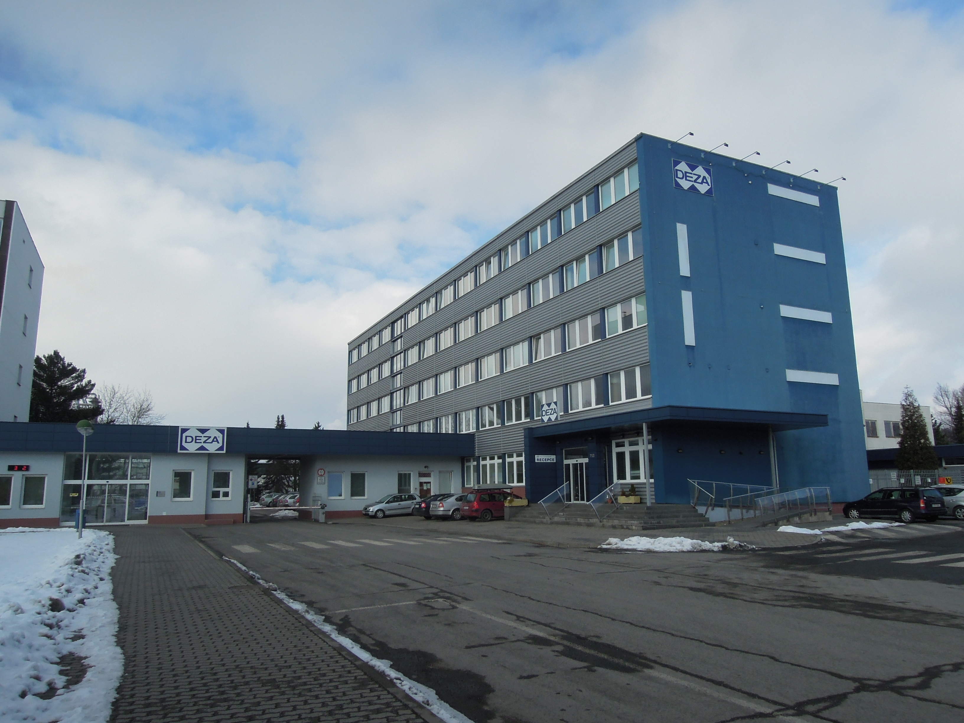 DEZA company in Valašské Meziříčí, Vsetín District, Zlín Region, Czech Republic